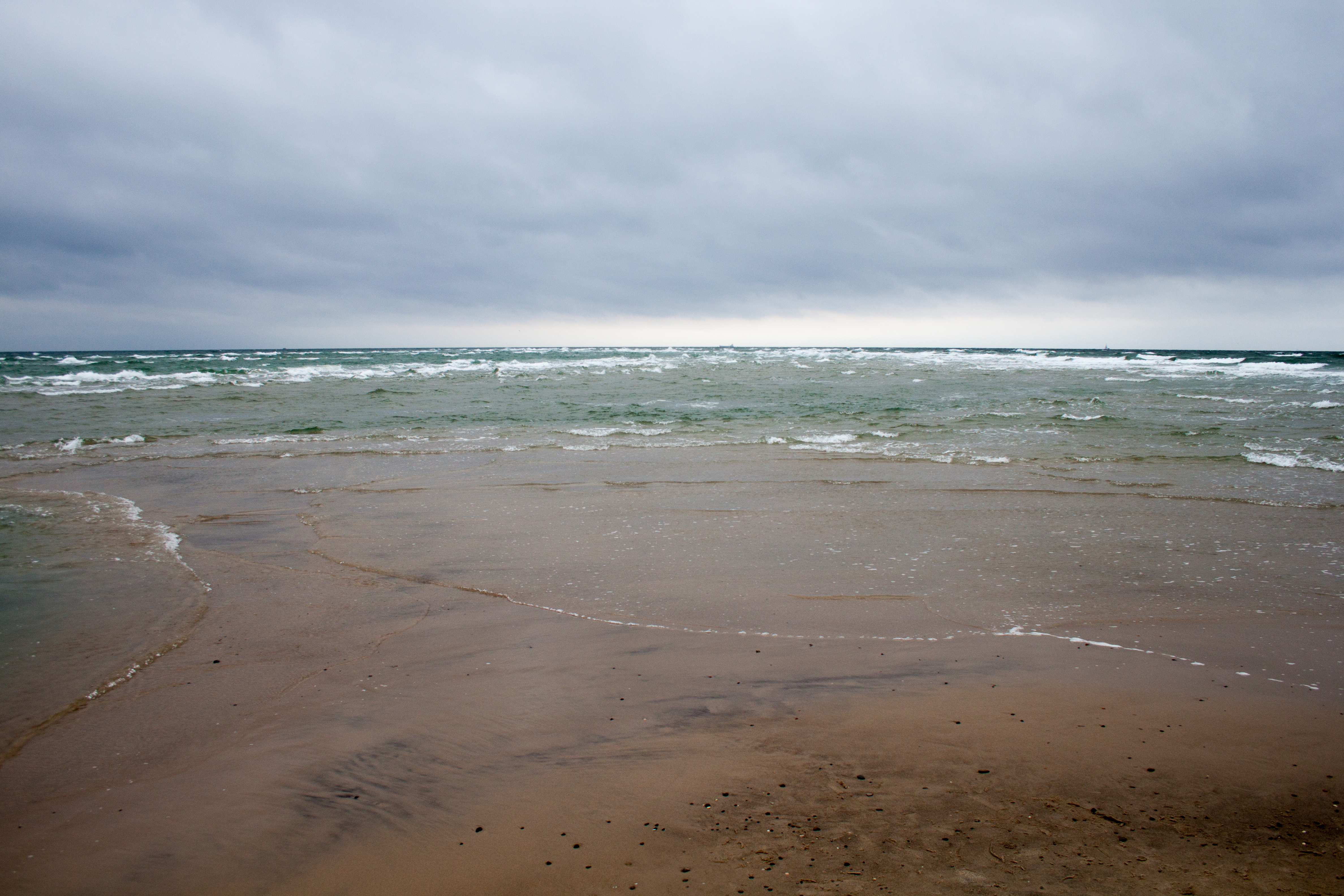 Grenen, meeting of the waters of the Skagerrak (left) and the Kattegat